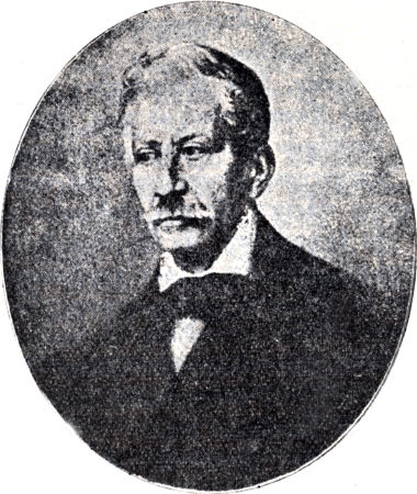 Konstantinos Aristias-Kyriakos (1800-1880): Greek-Romanian actor